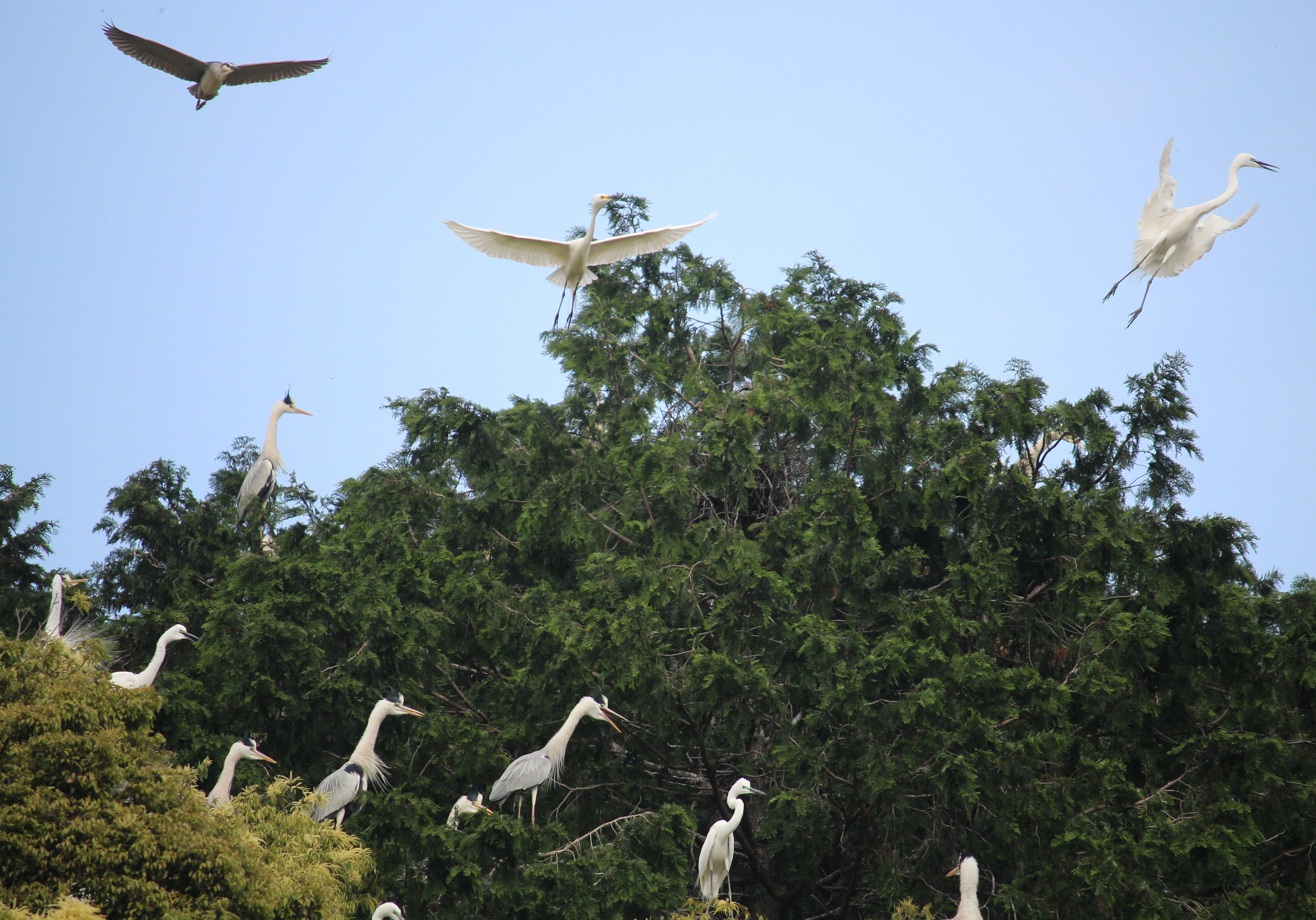 Nesting Colony of Ardeidae in Ibigawa, Gifu prefecture, Japan. Nycticorax nycticorax in flight, Ardea intermedia in flight, Ardea alba in flight. Ardea cinerea and Ardea intermedia on tree.